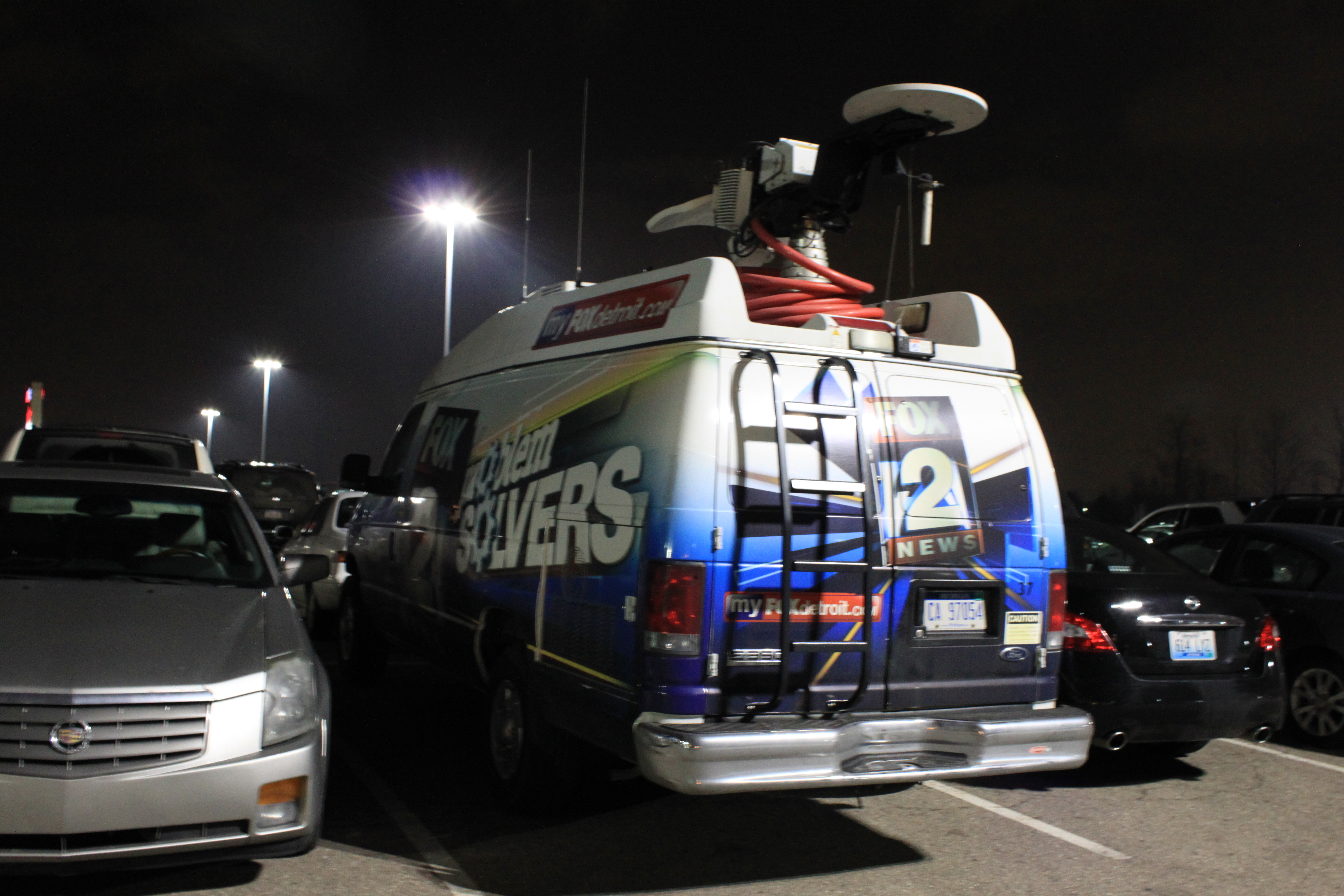 WJBK TV News remote van, at the Suburban Collection Showplace, 46100 Grand River Avenue, covering the Lincoln Day Dinner that featured Republican presidential candidates Mitt Romney and Rick Santorum as guest speakers.